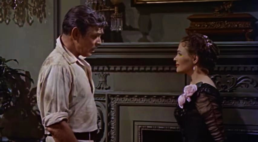 Clark Gable & Yvonne De Carlo in Band of Angels - trailer (cropped screenshot)